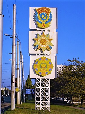 Medals of Tiraspol city